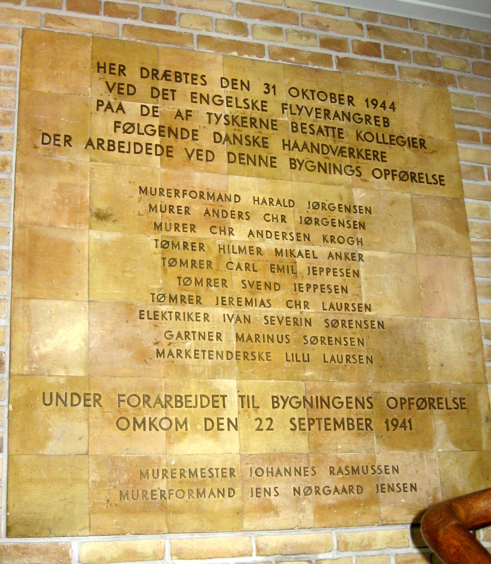 Memorial for workers killed during a World War II bombing of Aarhus Universitet in Århus, Denmark.